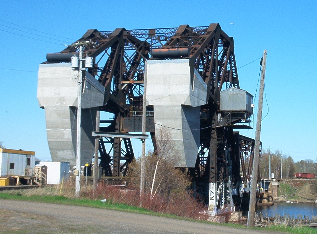 I, (Derek Silver), took this photograph on 23 May 2008. It is of the Jackknife Bascule Bridge in Thunder Bay, Ontario. I hereby release it into public domain for the masses to enjoy. :) vıdıoman 09:39, 24 May 2008 (UTC)